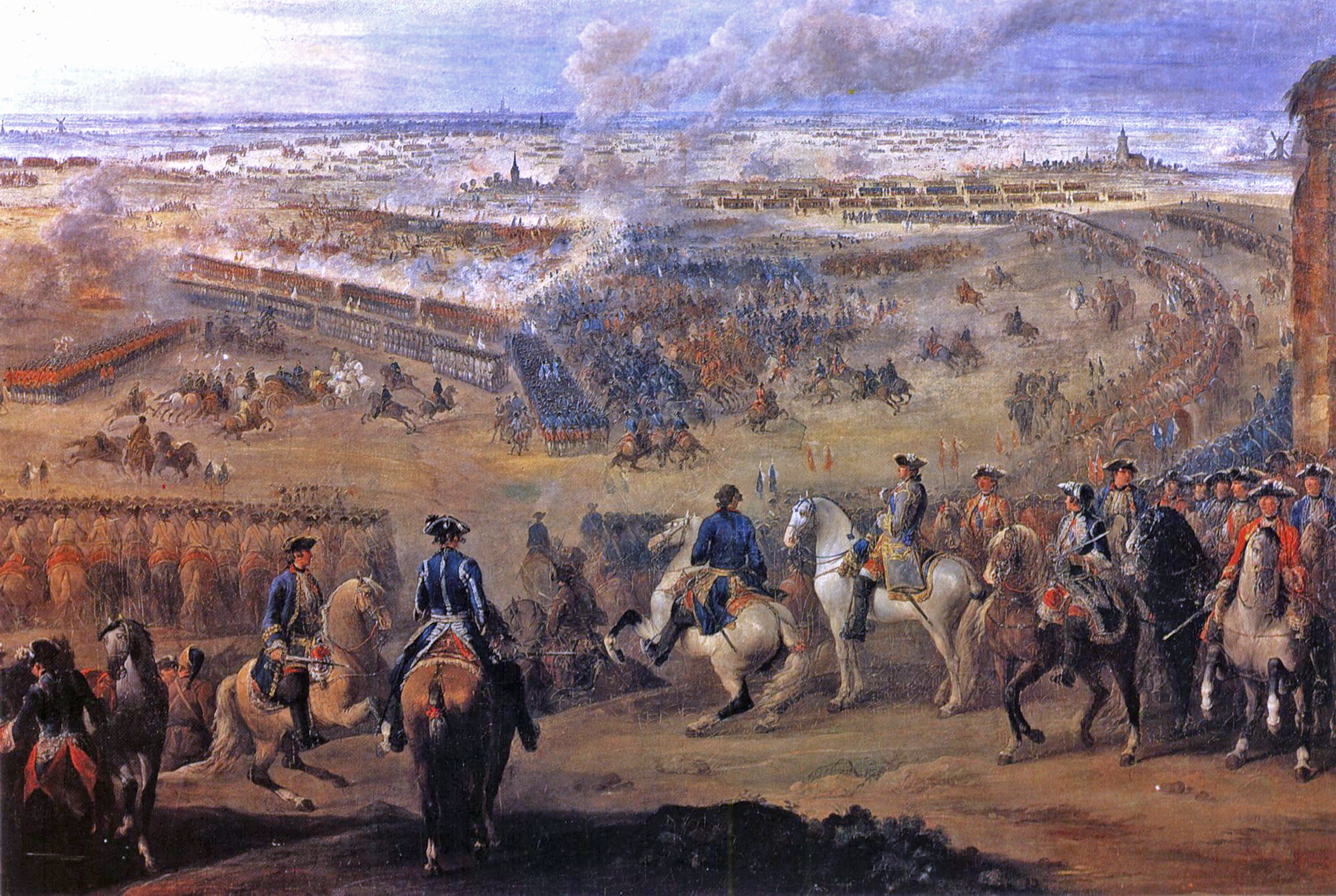 Battle of Fonetnoy 1745